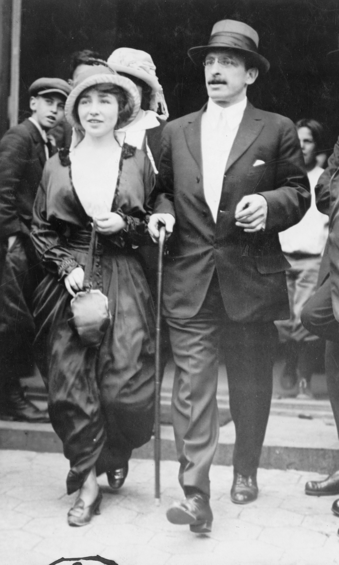 Alexander Berkman and Helen Harris arriving in Tarrytown, full-length portrait, standing, facing slightly left (Helen was born in Warsaw on October 21, 1897, as Helen Goldblatt, alias Helen of Troy, died at Mohegan, on January 30, 1963)